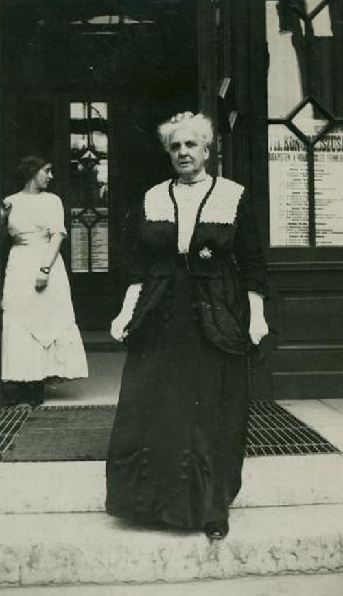 Fannie Garrison Villard at the International Womman Suffrage Congress, Budapest, 1913